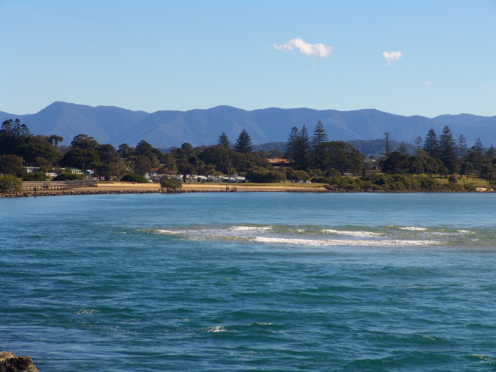 Urunga, NSW. Photograph by John Catsoulis